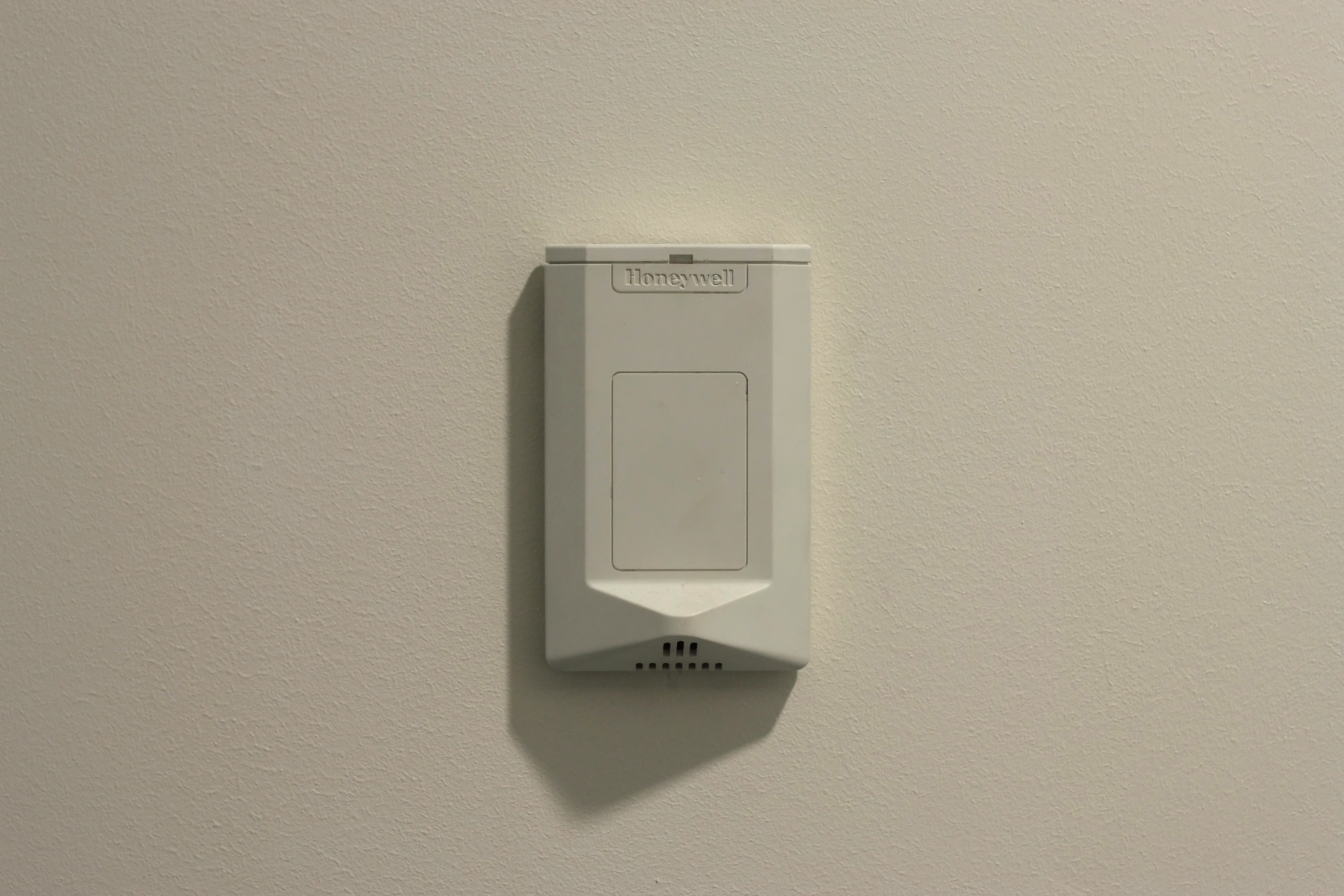 A Honeywell H7012A1009 humidity sensor. Location not provided due to privacy issues.